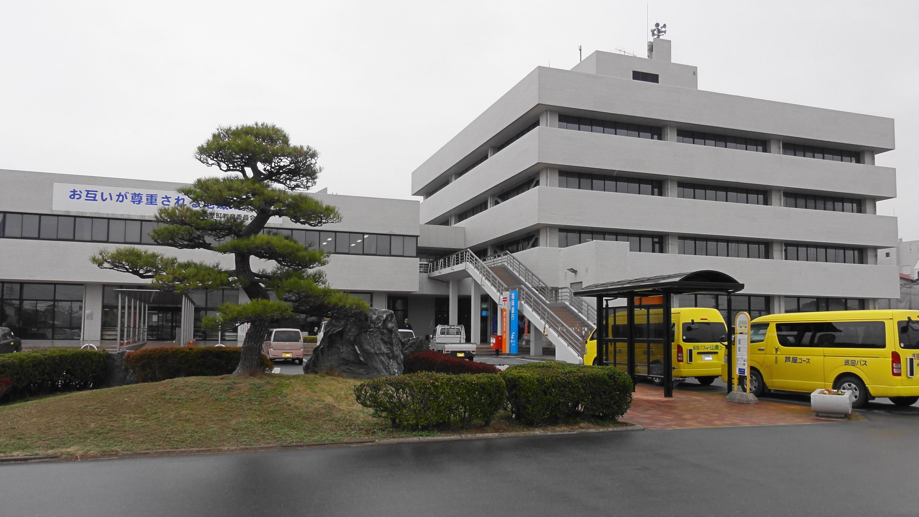 Ashiya town office,Fukuoka prefecture,Japan